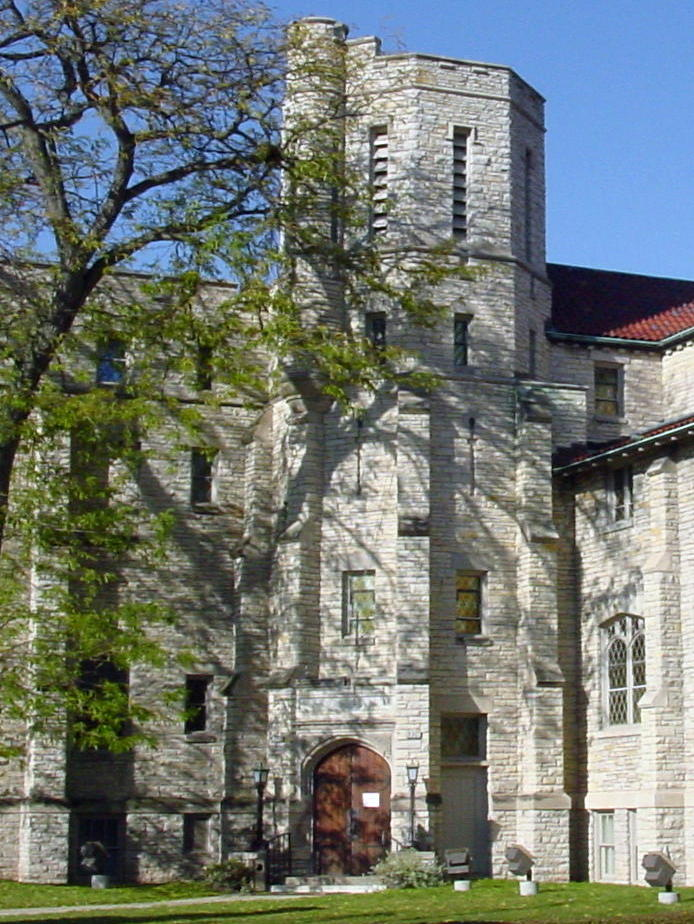 Photo of the front entrance to the old Masonic Temple in Appleton, WI, now the Outagamie County Historical Society's History Museum at the castle. It was listed on the National Register of Historic Places as the Masonic Template in 1985. It now hosts the Harry Houdini museum.